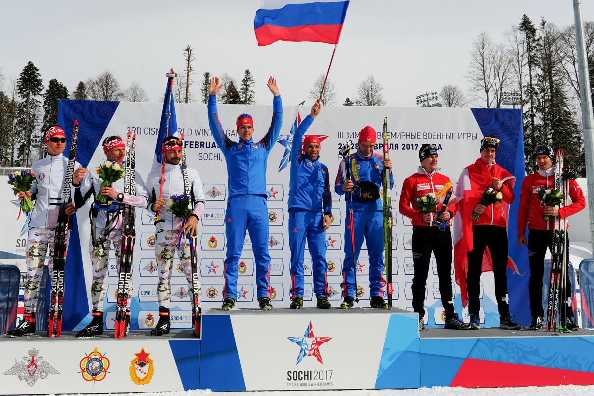 27 февраля 2017. Сочи. Лыжно-биатлонный комплекс "Лаура". Ориентирование на лыжах. Эстафета.Фото Александр Федоров.